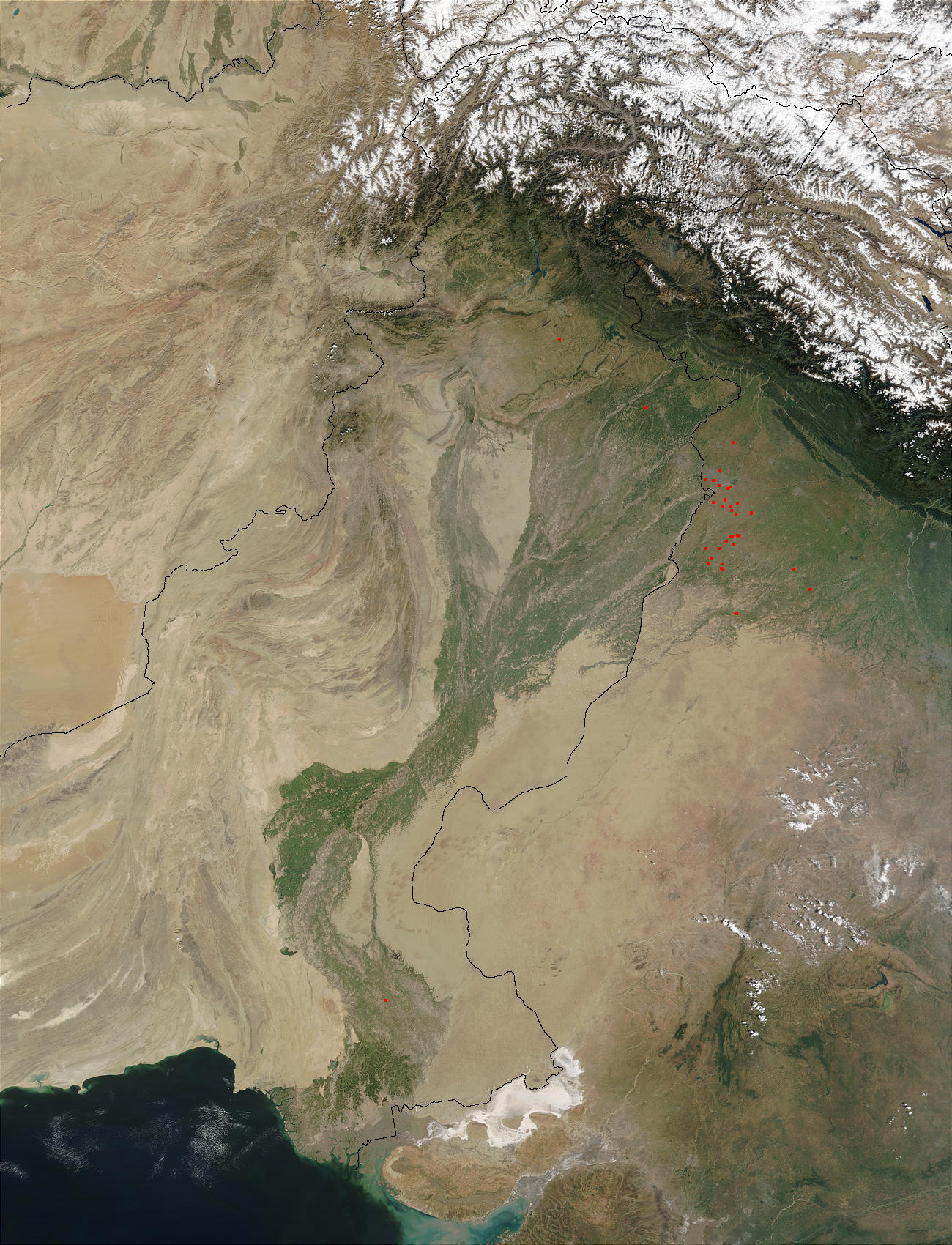 Satellite image of the Indus River basin. Red dots indicate fires. International boundaries are superimposed; the boundary through Jammu and Kashmir reflects the Line of Control. Agricultural burning is occurring in Northwest India (usually at right) and Pakistan (at left )near the Indus River in October 2002. The Moderate Resolution Imaging Spectroradiometer on the Aqua satellite detected numerous fires (red dots) burning just east of India’s border with Pakistan (upper left quadrant). The haze in the area is probably not solely due to the fires, however; some of it is likely urban air pollution from several large cities in the region. In the upper right quadrant, the foothills of the Himalayas are deep green, and the peaks are dusted with snow and capped by clouds.